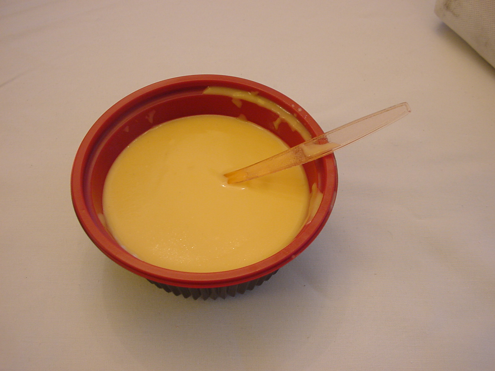 A bowl of pumpkin cream soup